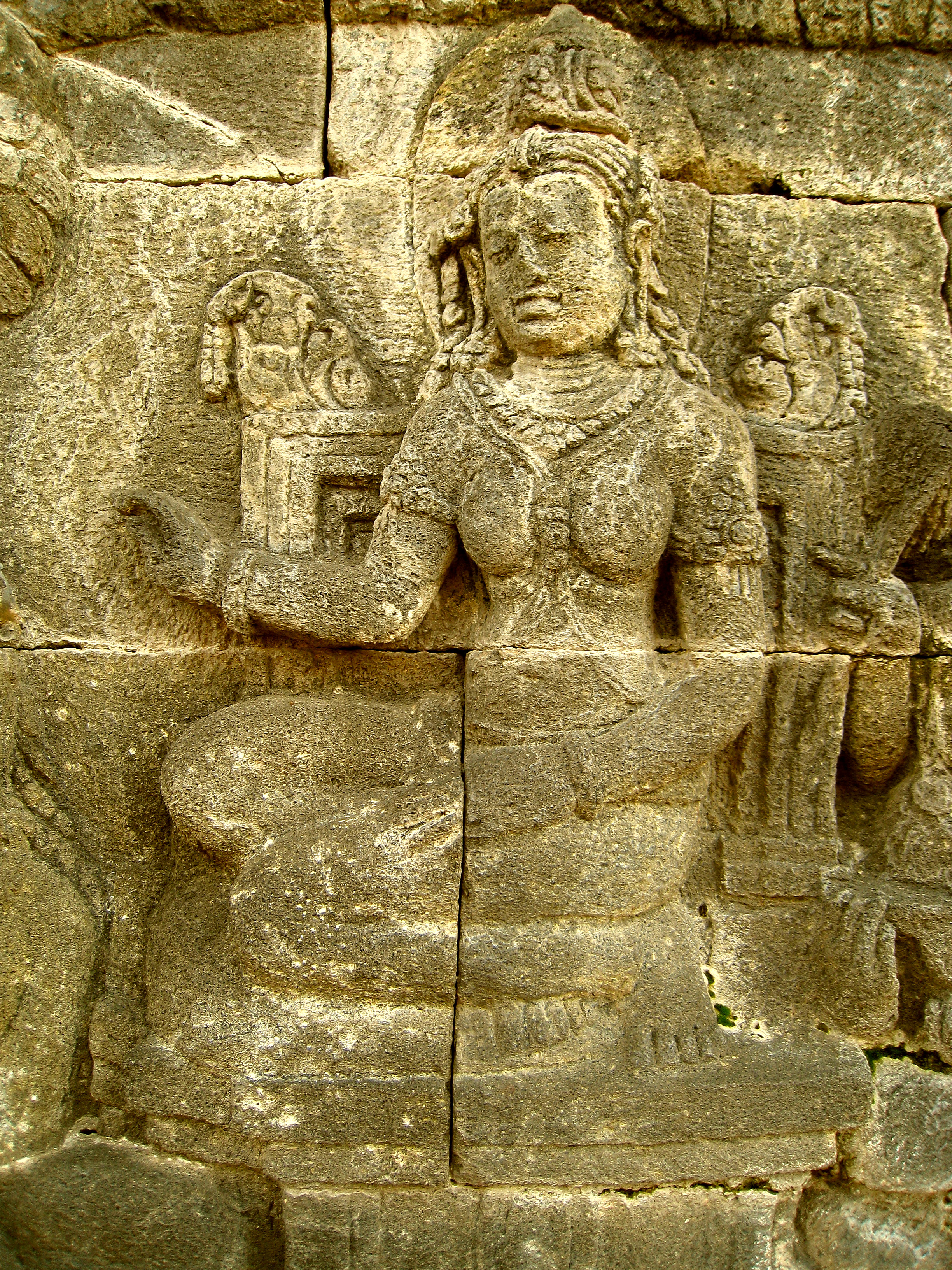 040 S-22, Queen Maya heals the Sick (detail, center) at Borobudur Photograph of a Lalitavistara relief at Borobudur in Java, Indonesia taken by Anandajoti.